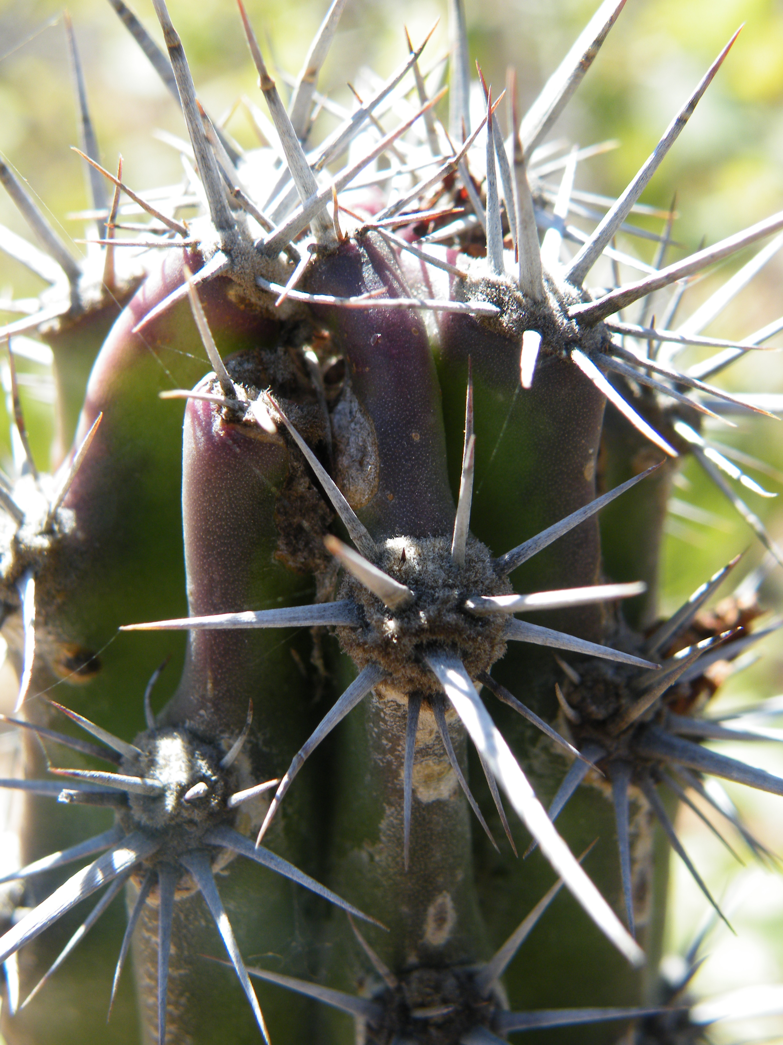 Stenocereus gummosus El Triunfo, South Baja California